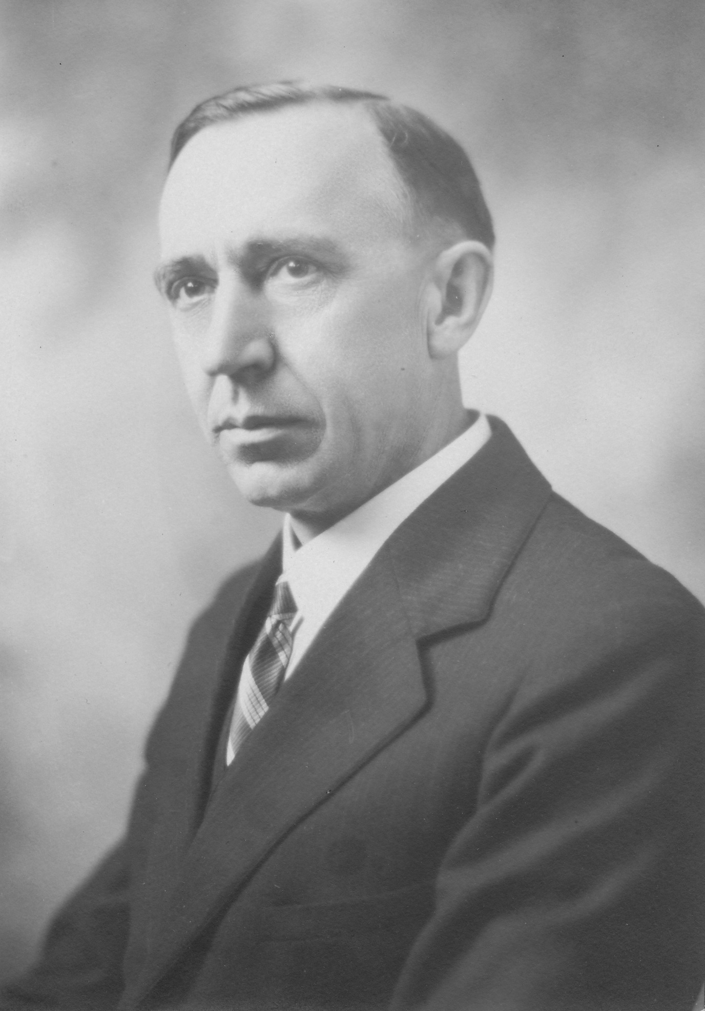 Dr. Edward Freeman (PhD, 1905) was, in 1907, the founder of the Plant Pathology Department. He was its intellectual leader. He recruited E.C. Stakman and was his graduate advisor and lifetime mentor. Freeman served as both Dean of the College of Agriculture and Head of Plant Pathology until his retirement in 1943. Photo Courtesy of the University of Minnesota Library Archives, Plant Pathology Collection.